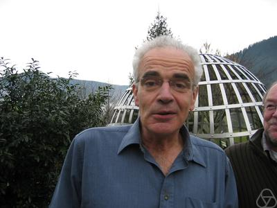 Professor Dr. Claude Lemaréchal (INRIA) at Oberwolfach (MFO) Workshop on computational optimization 2005.